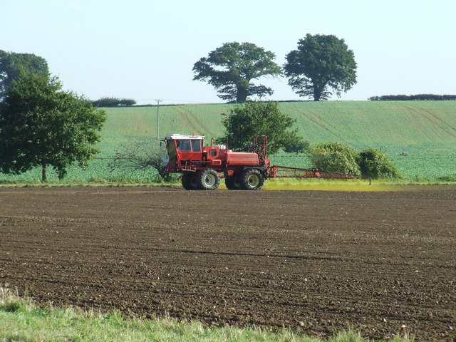 Farmer spraying something yellow near to Bulmer Essex.